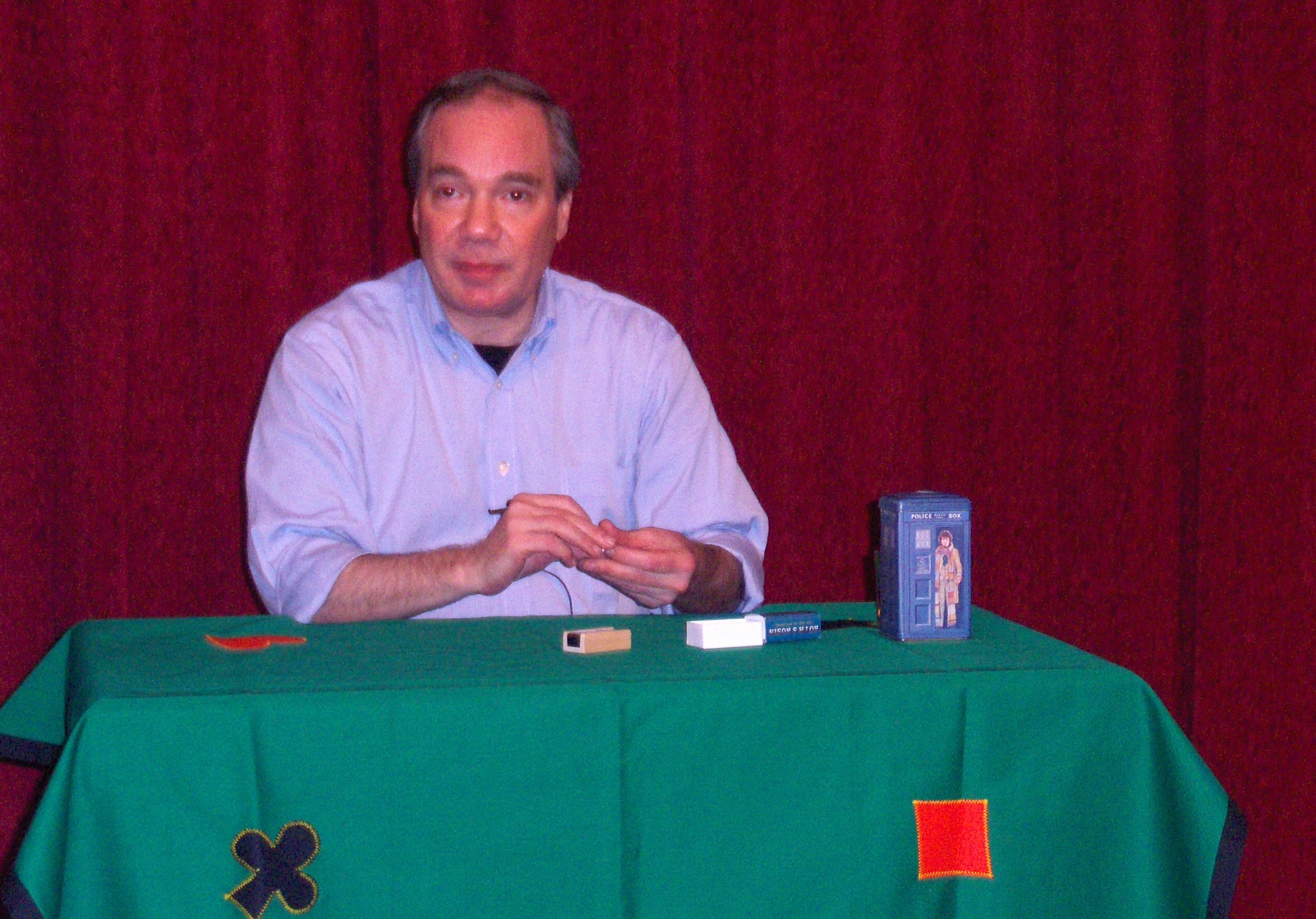 David Roth Performing at NY Coin Seminar 7